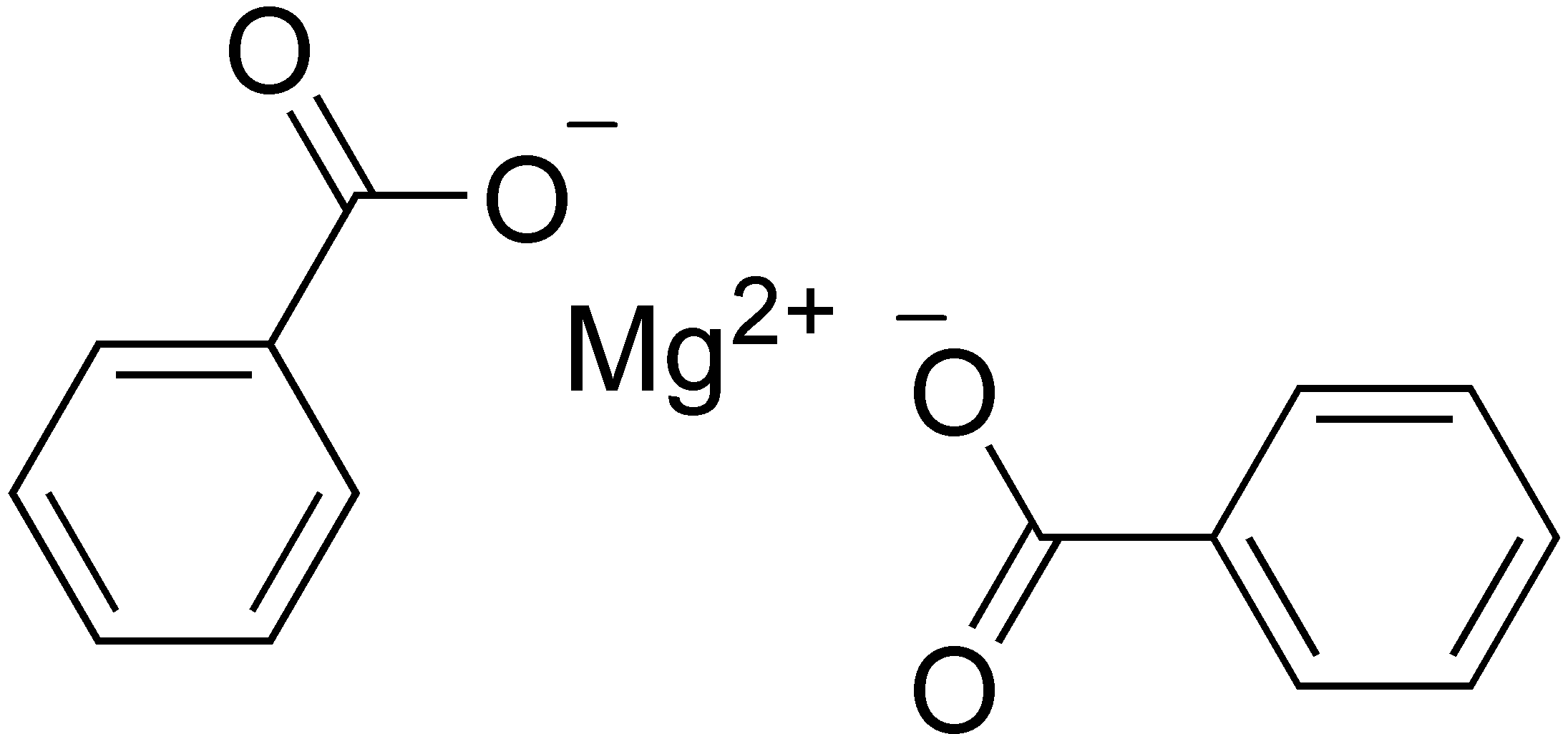 Chemical structure of Magnesium benzoate